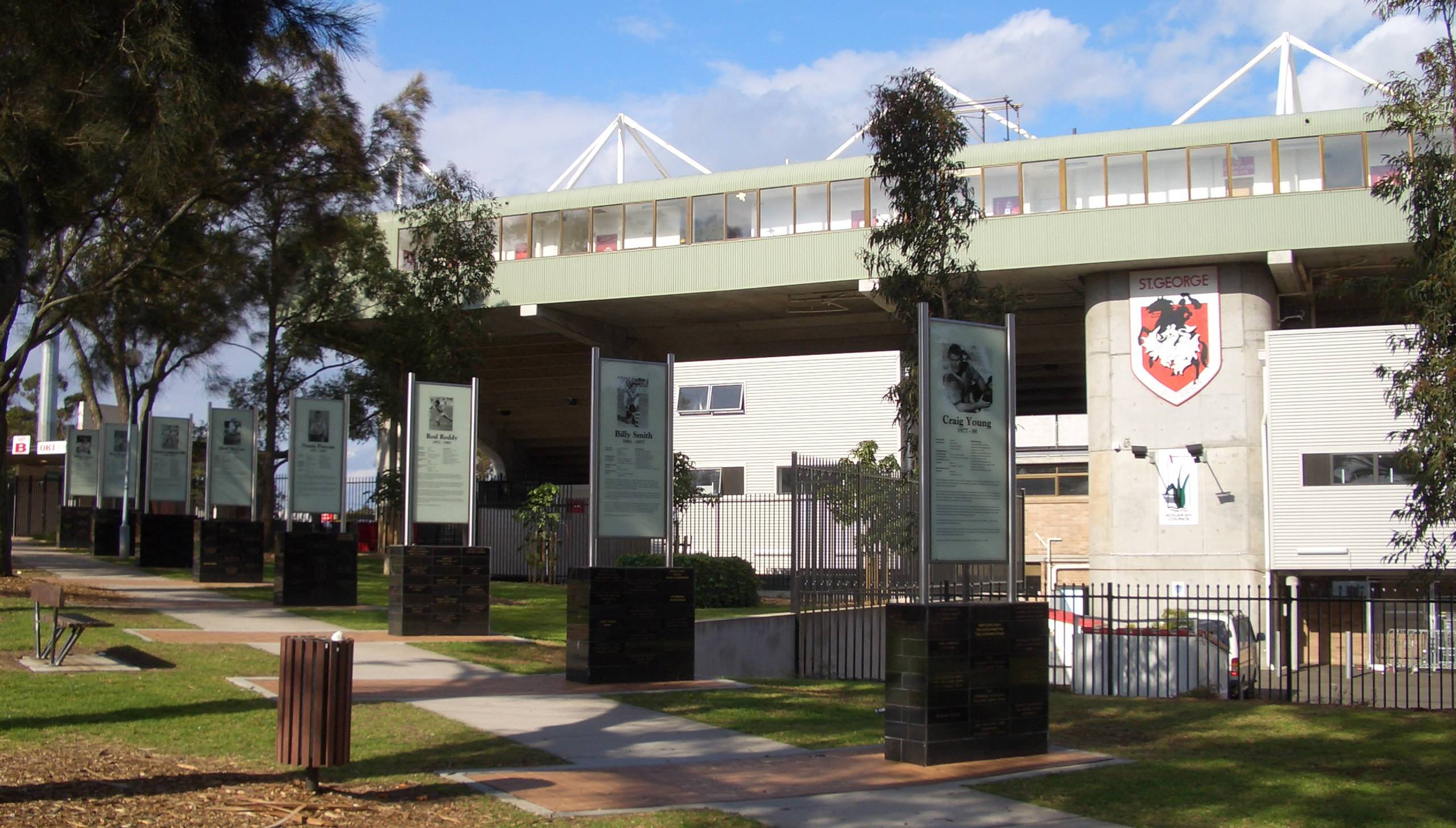 Carlton Stadium, Sydney, Australia. I took the photo on 29th August 2006.J Bar 02:59, 29 August 2006 (UTC)